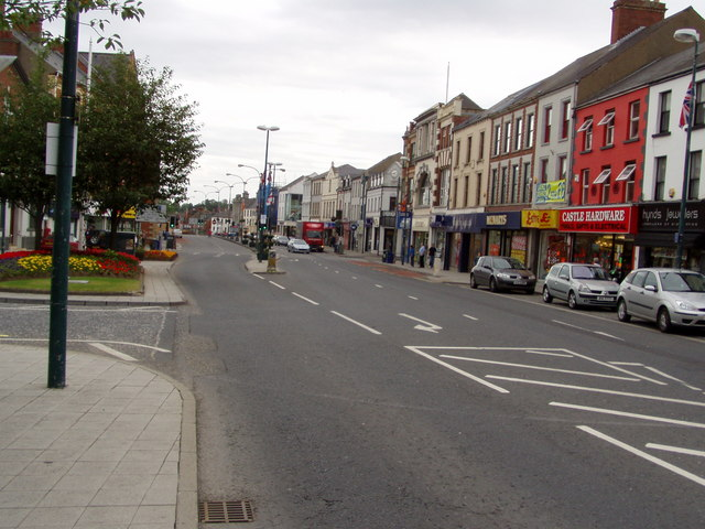 Portadown town centre. Portadown town centre from the church looking downtown.